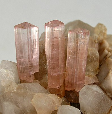 Elbaite, Orthoclase, Quartz Locality: Monte Somma, Somma-Vesuvius Complex, Naples Province, Campania, Italy (Locality at ) Size: small cabinet, 7.1 x 4.5 x 3.2 cm Tourmaline var. Rubellite on Orthoclase with Quartz This is an important piece because it has closely-spaced rubellites, of gem quality, ON MATRIX, from the type locality for rubellite tourmaline! And, the history goes way back here. It was formerly n the collection of father and/or son Charles and Norman Spang, and retains their number on the bottom. The mineral spangolite was named in Norman Spang's honor. Many of the Spang specimens were purchased by the American Museum of Natural History (for $8,000), and others that were purchased by Bement were ultimately purchased from him by J. Pierpont Morgan and donated to the American Museum in 1900. The piece also retains on the bottom the Bement arrow showing how to display it in the AMNH showcases, drawn on the (sawed) bottom by then-curator Gratacap in black ink. Lastly, Sinkankas traded this piece out in 1960 from the AMNH and it now has HIS label on the bottom as well, all corresponding to the original information. Irv Brown traded this from John in the mid 1990s. To get a good history back to the mid-1800s on one of these is hard to do. A showy matrix specimen is also hard to get. One with gemmy crystals, still harder. Given all of this, I am willing to put up with the fact tha tit does have 3 repairs, one to each crystal at the matrix just above their attachment points (so they don't show until a close look). But, it displays wonderfully, much better than most old Elba pieces! Click on the link above to see more information about these collections, courtesy of the Minerlogical Record Archives . I think i PAID $4000 for this and then decided it was too much, in retrospectf, if memory serves. ugh.